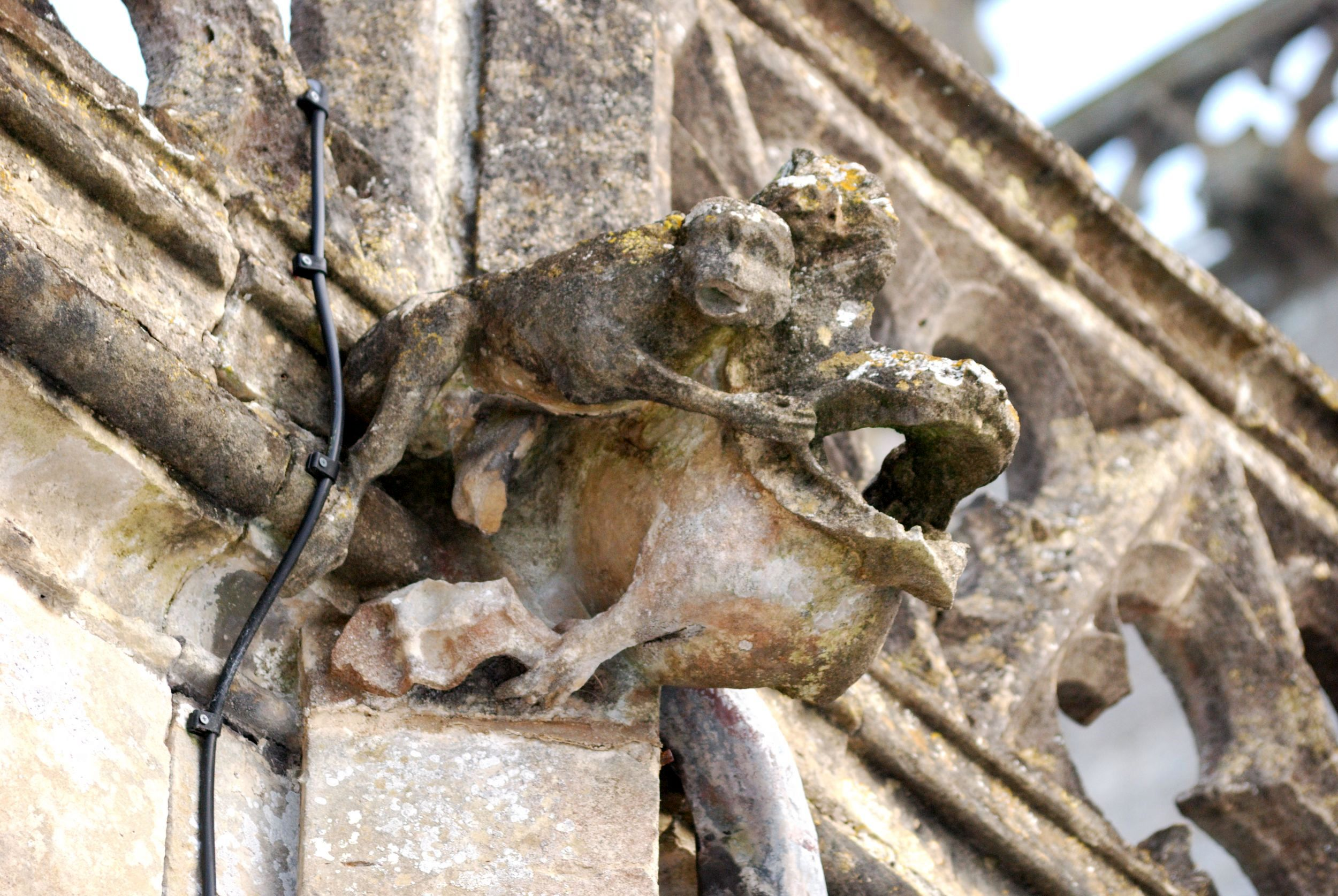 Monkey gargoyle on the Church of St Mary, Yatton